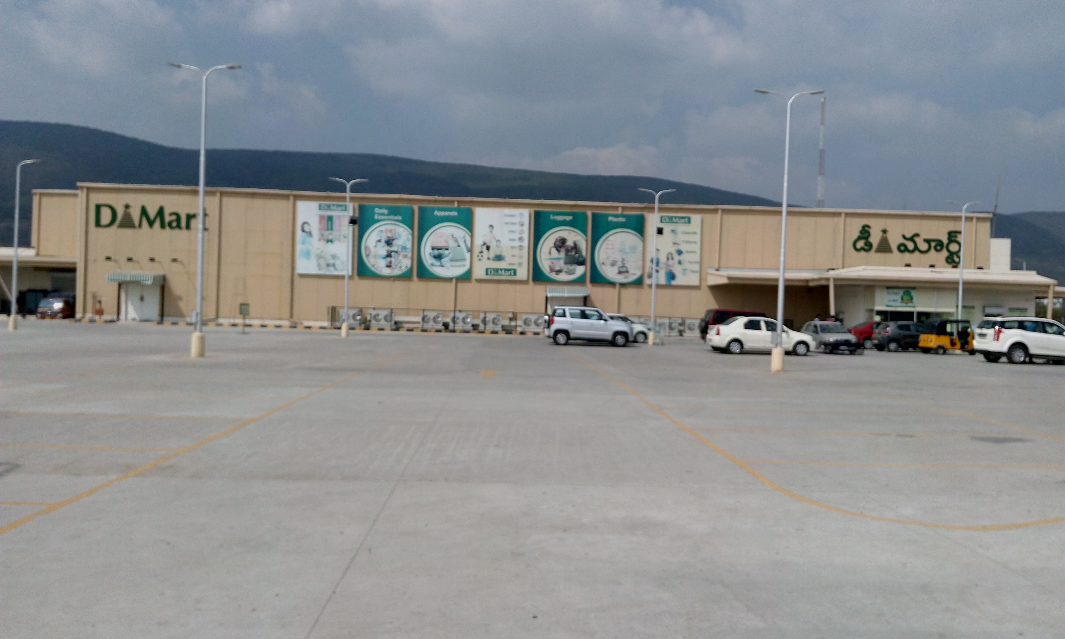 Dmart tirupati.jpg